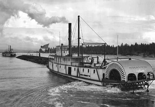 Benson sea-going log raft being pushed down the Columbia River